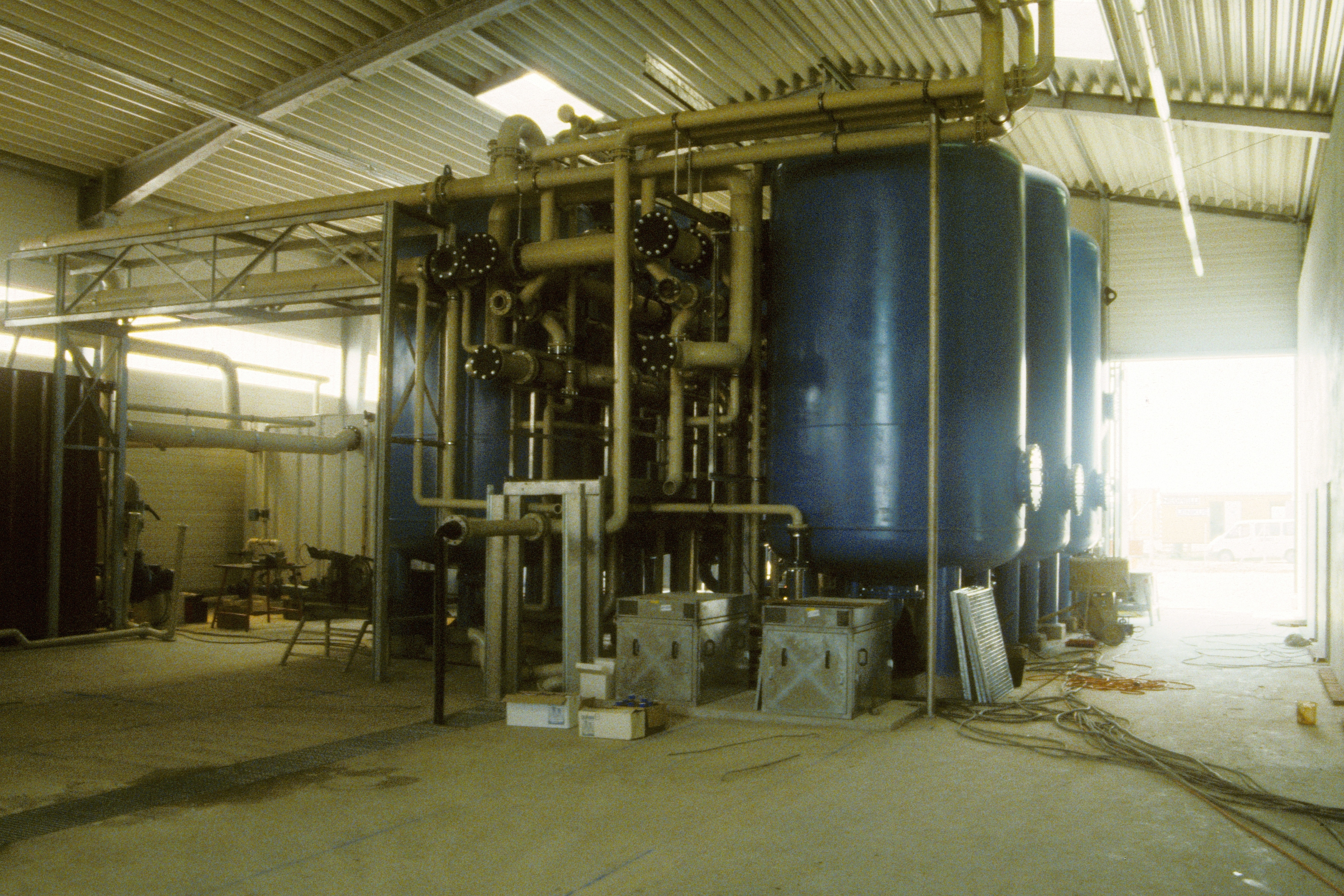 Activated charcoal filter for the groundwater treatment during decontamination of the landfill Fischer-Deponie, Lower Austria